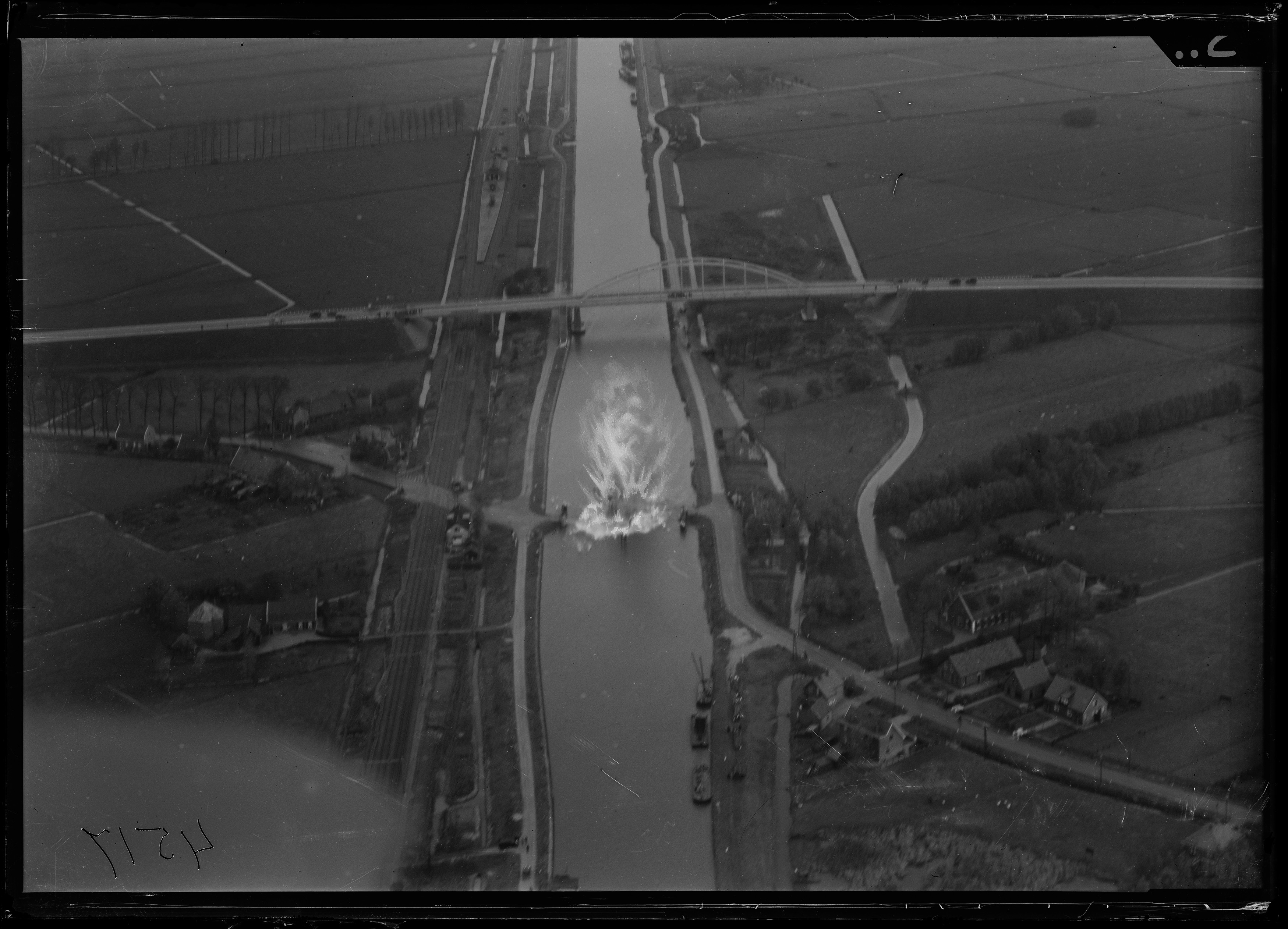 Aerial photograph of Nieuwersluis, The Netherlands, showing an explosion on the canal, "clearing away of a bridge using explosives"